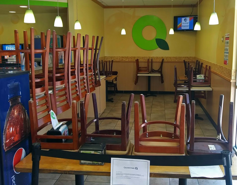 Dining area at a Quick Chek convenience store near Scotchtown, NY, USA, closed off, with tables and chairs put away, during COVID-19 pandemic, in order to discourage congregating in public places.